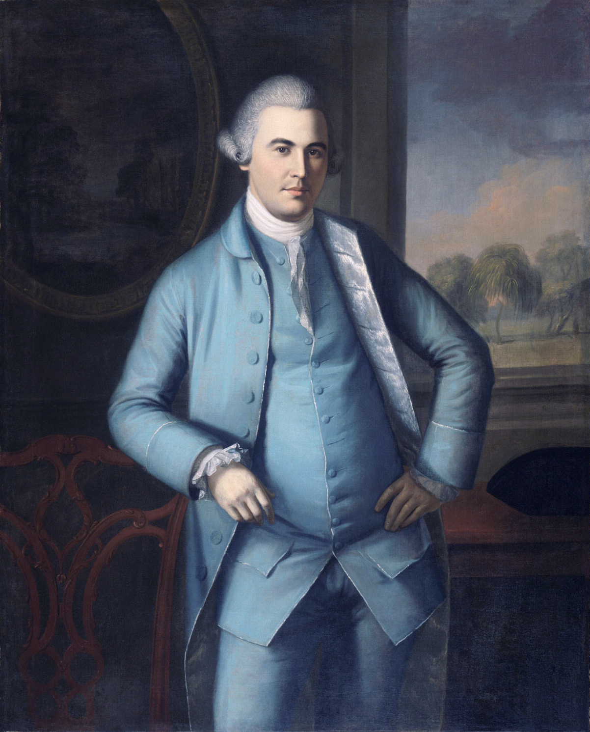 Colonel Lambert Cadwalader (1743-1823) oil on canvas 129.5x 103.8 cm